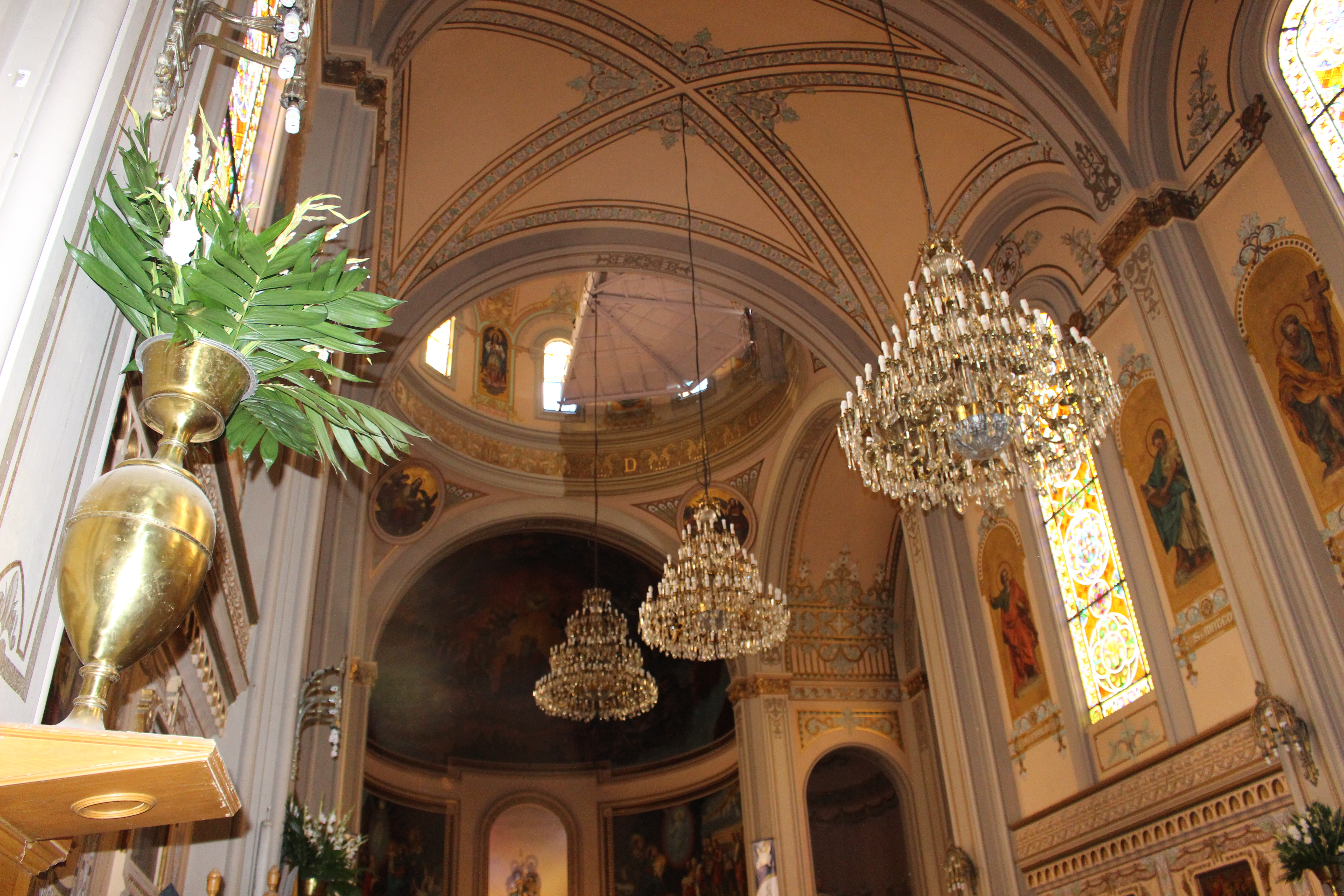 Inside of the Sagrada Familia Parish, located at Colonia Roma, Mexico City.